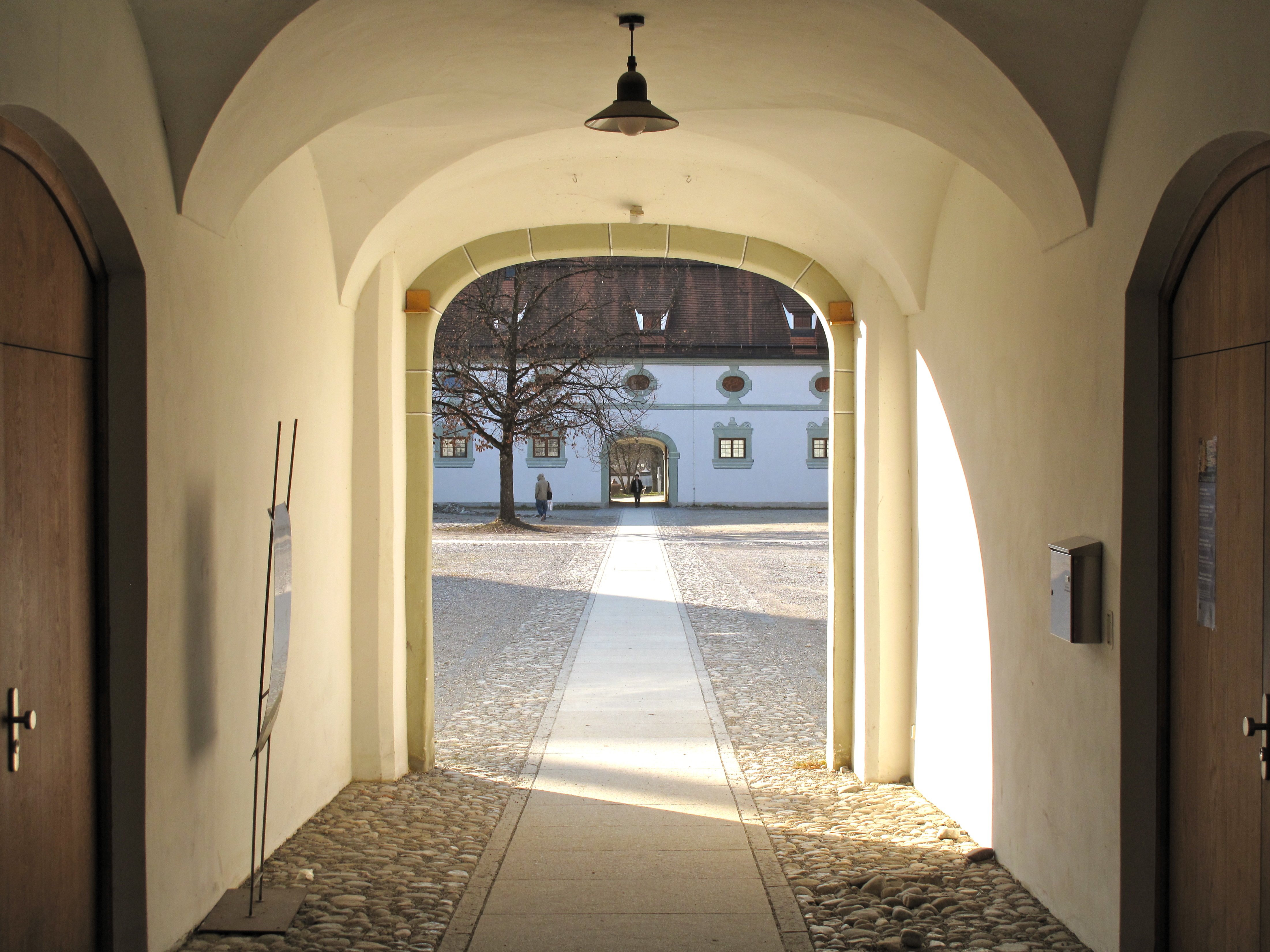 Benediktbeuern Abbey in Benediktbeuern, Upper Bavaria, Germany.